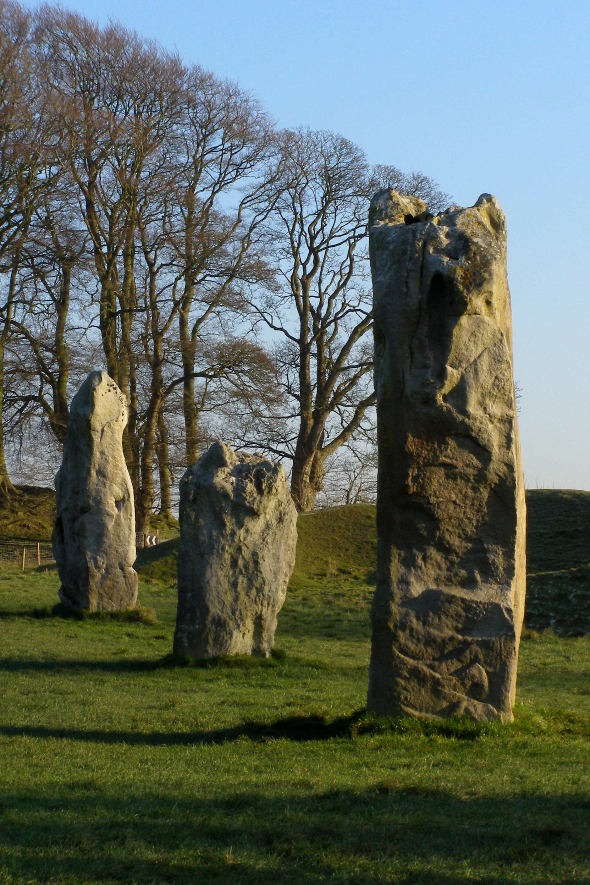 Sarsen stones in the south-west quadrant of Avebury henge's Great Circle. From the left, stones 7, 8 and 9. Stone 9, on the right, is the Barber Stone.